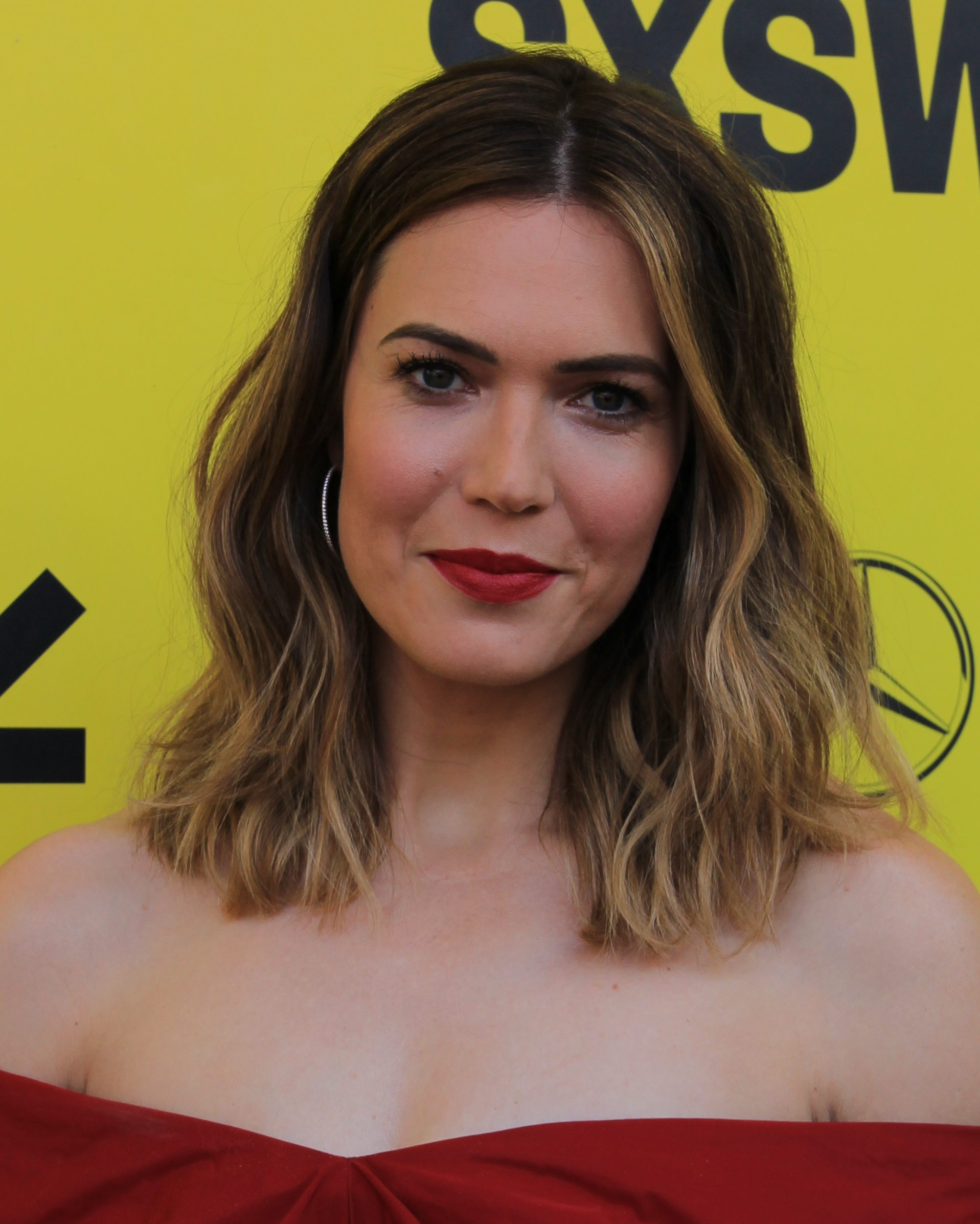 Mandy Moore